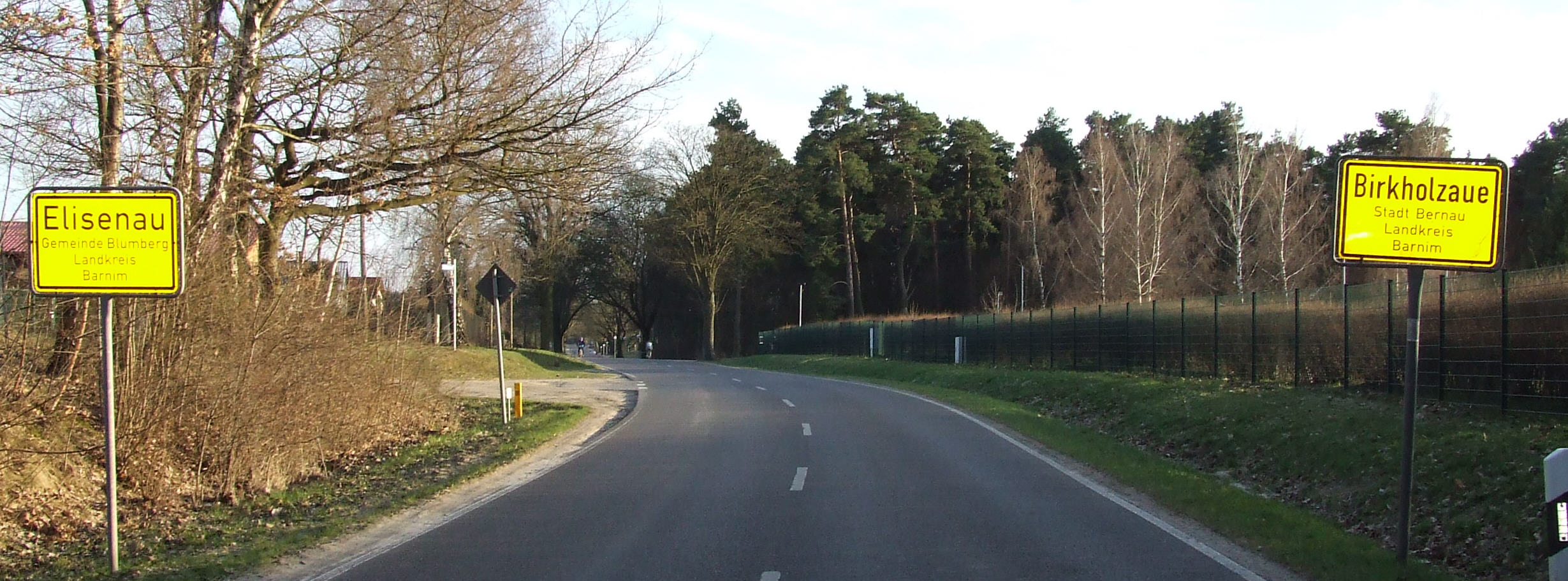 The Brandenburg state road 311 seperates two settlements, which therefore have their own town signs. On the left is Elisenau (mun. Ahrensfelde), on the right Birkholzaue (city of Bernau bei Berlin).